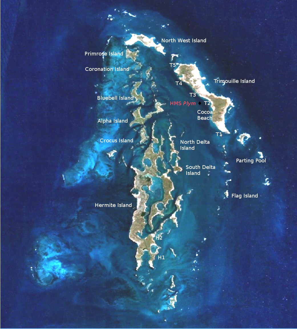 Map of the Monte Bello Islands, indicating sites for Operation Hurricane. Made from File:Montebello Islands-NASA.jpg and map in "A History of British Atomic Tests in Australia", p. 83